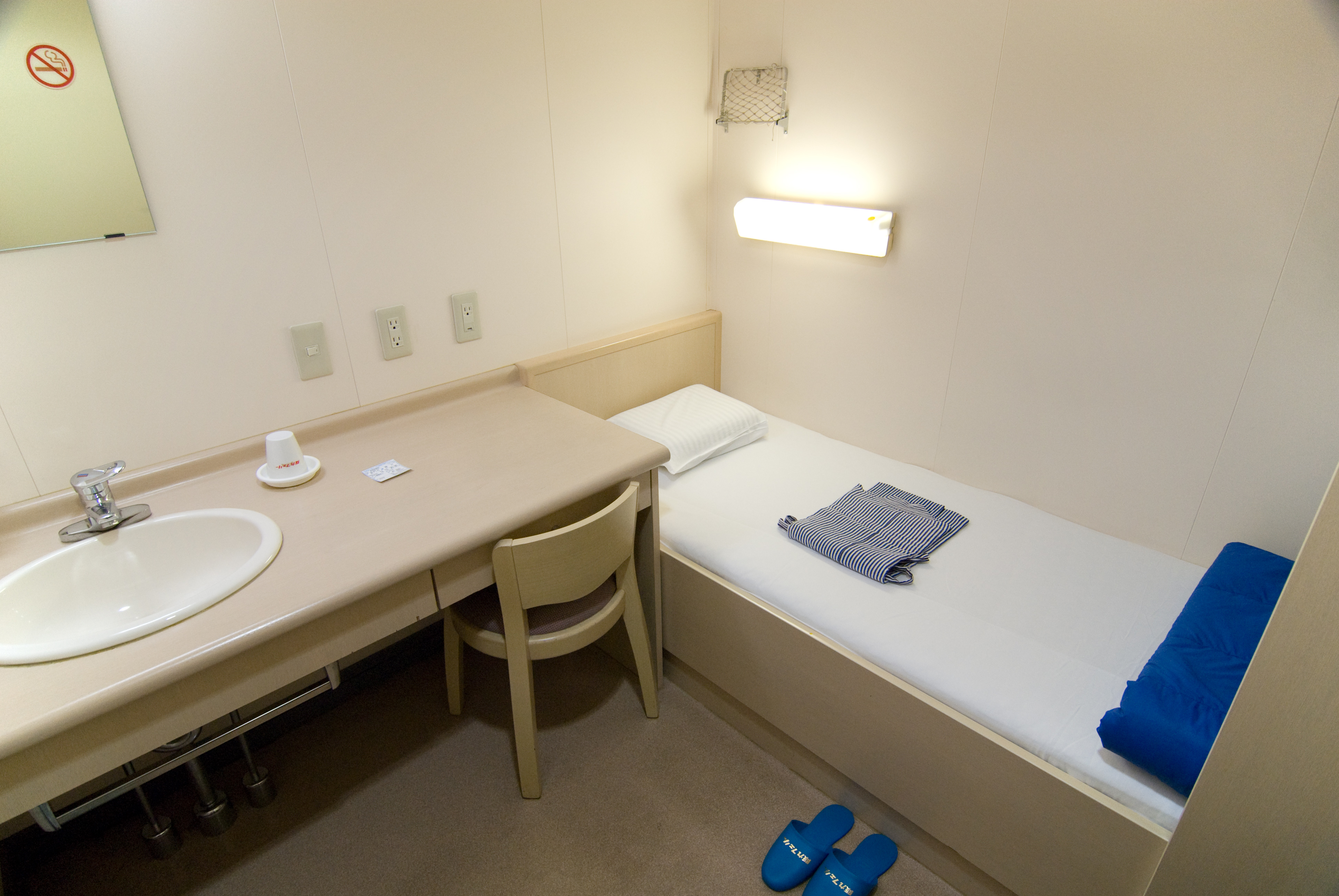 "Ferry Tukushi" second-class CabinA.